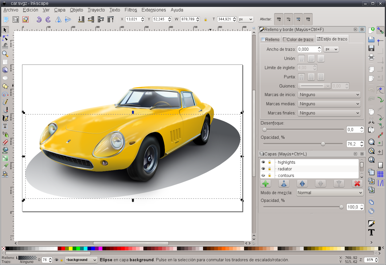 Inkscape 0.48 sceenshot